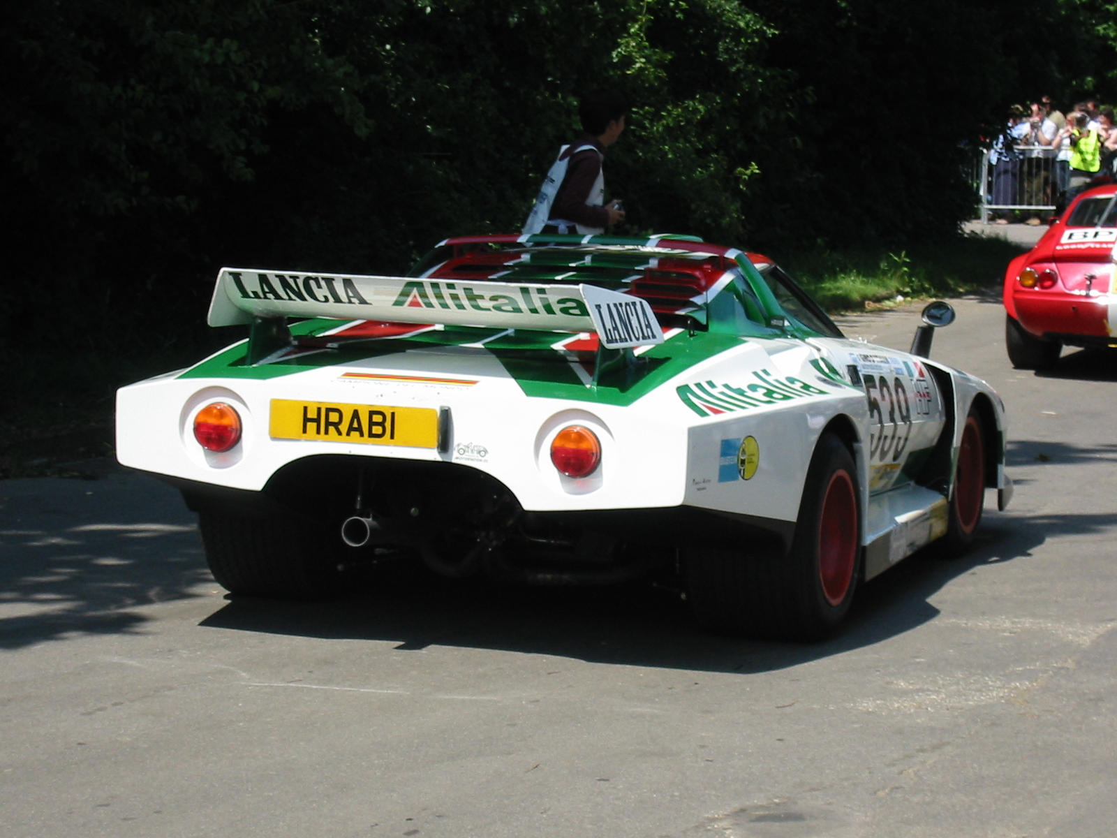 Built 1975. The only survivor of two factory Group 5 racing versions of the Stratos rally car. Powered by fuel-injected dry sump turbochrged V6 developing 560bhp and weighing just 850kg. Not seen in public for nearly 30 years.